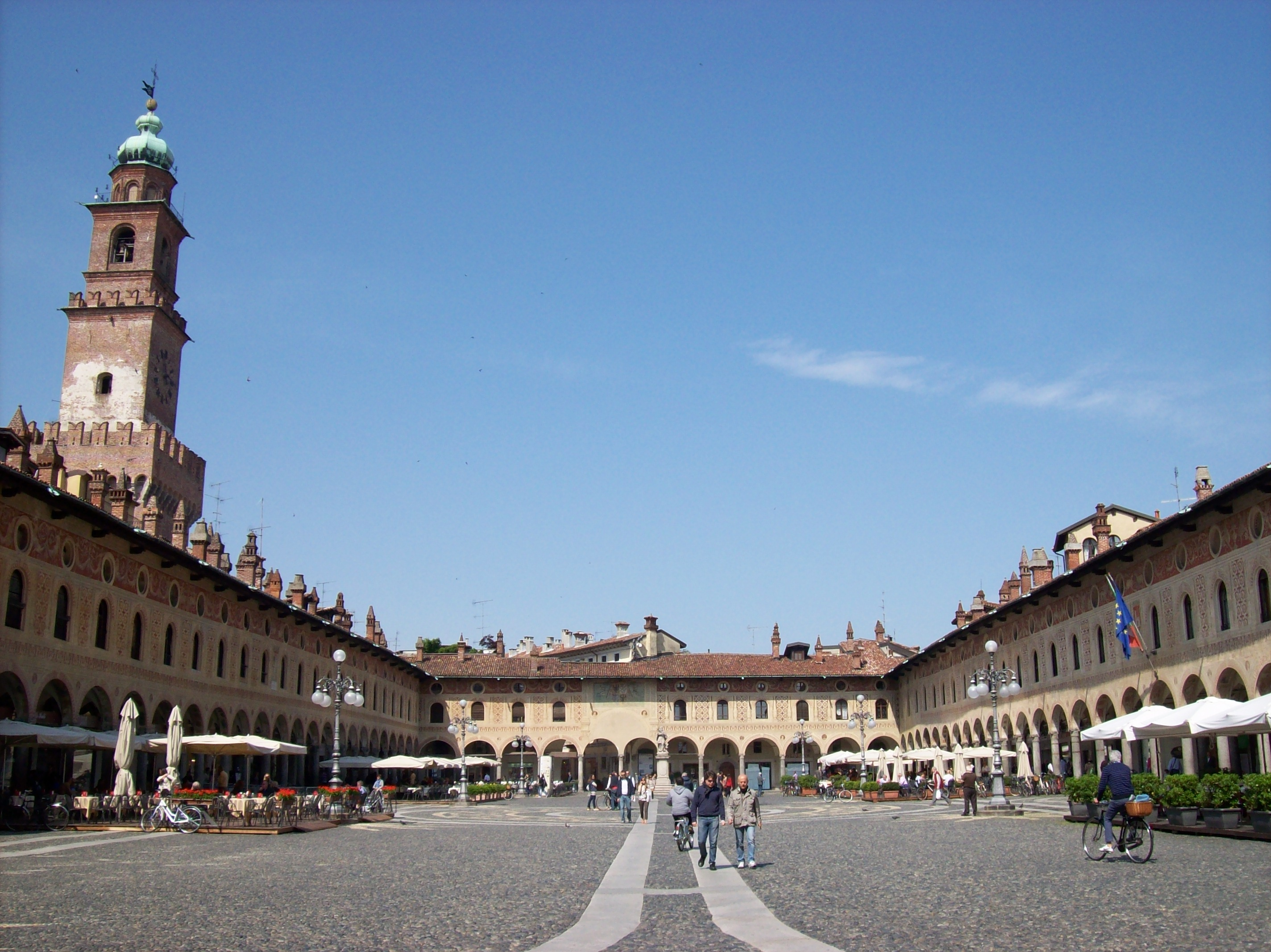 Piazza Ducale in Vigevano, province of Pavia, Italy